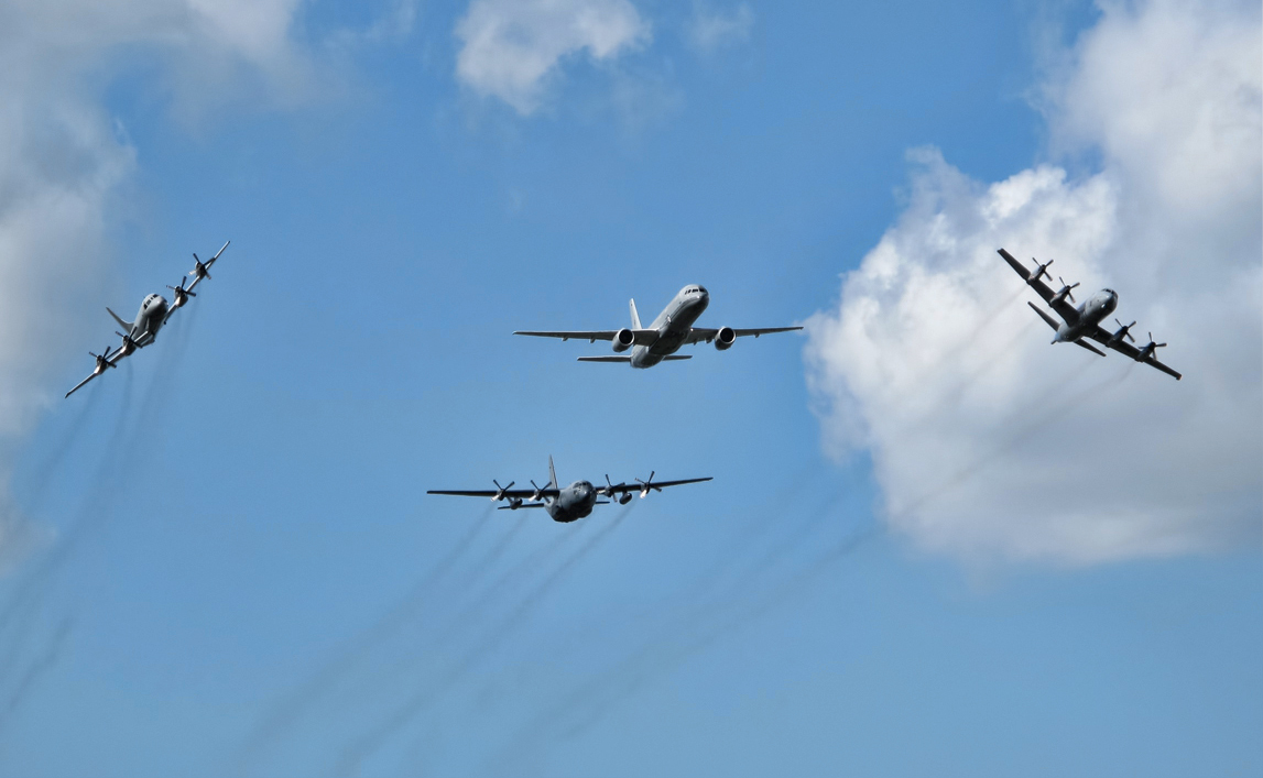 RNZAF 40 Squadron Boeing 757 and C130H Hercules are flanked by two 5 Squadron P-3K Orions which are breaking formation during a display at the Whenuapai air show on the 21st of March in 2009.